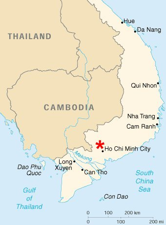 Location of Bien Hoa Air Base. Created from map of southern (south) vietnam generated from wikipedia commons map of southeast asia